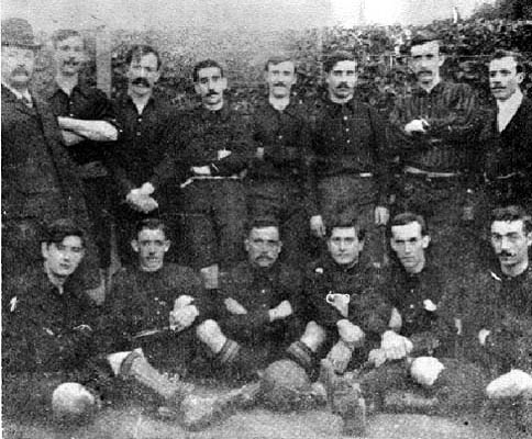 Team of Barracas A.C. Players are, fltr (standing): José Buruca, C. Thompson, G. Pigni, W. Diggs, W. Dunne, E. Firpo; (down): Carlos Céspedes, J. Coffei, D. Lennie, Bolívar Céspedes, Thompson, J. Diggs.